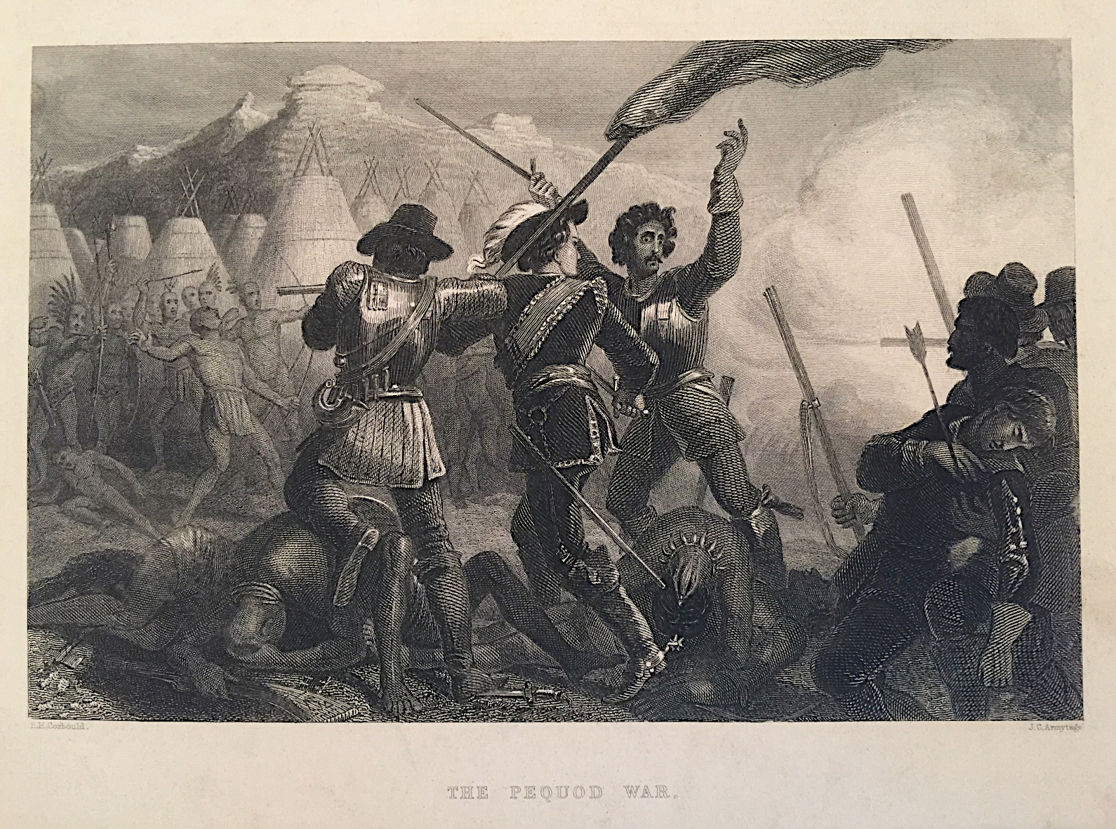 Temporary Plaster Monument